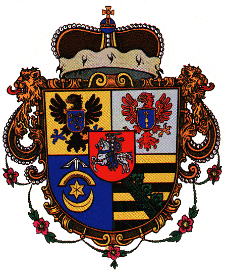 POL_COA_Bohuslav_Radziwiłł